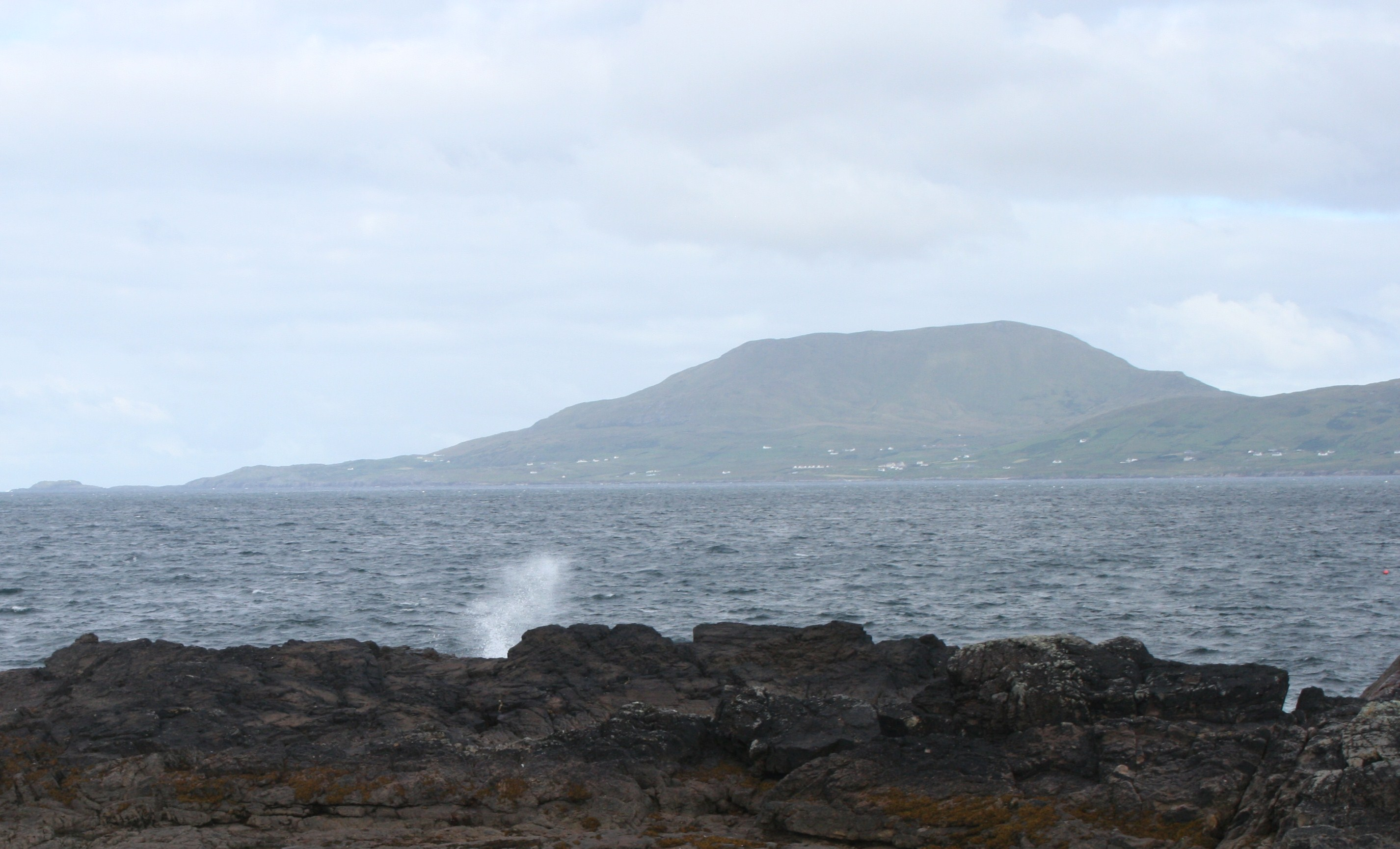 Knockmore Mountain from Clew Bay in Ireland